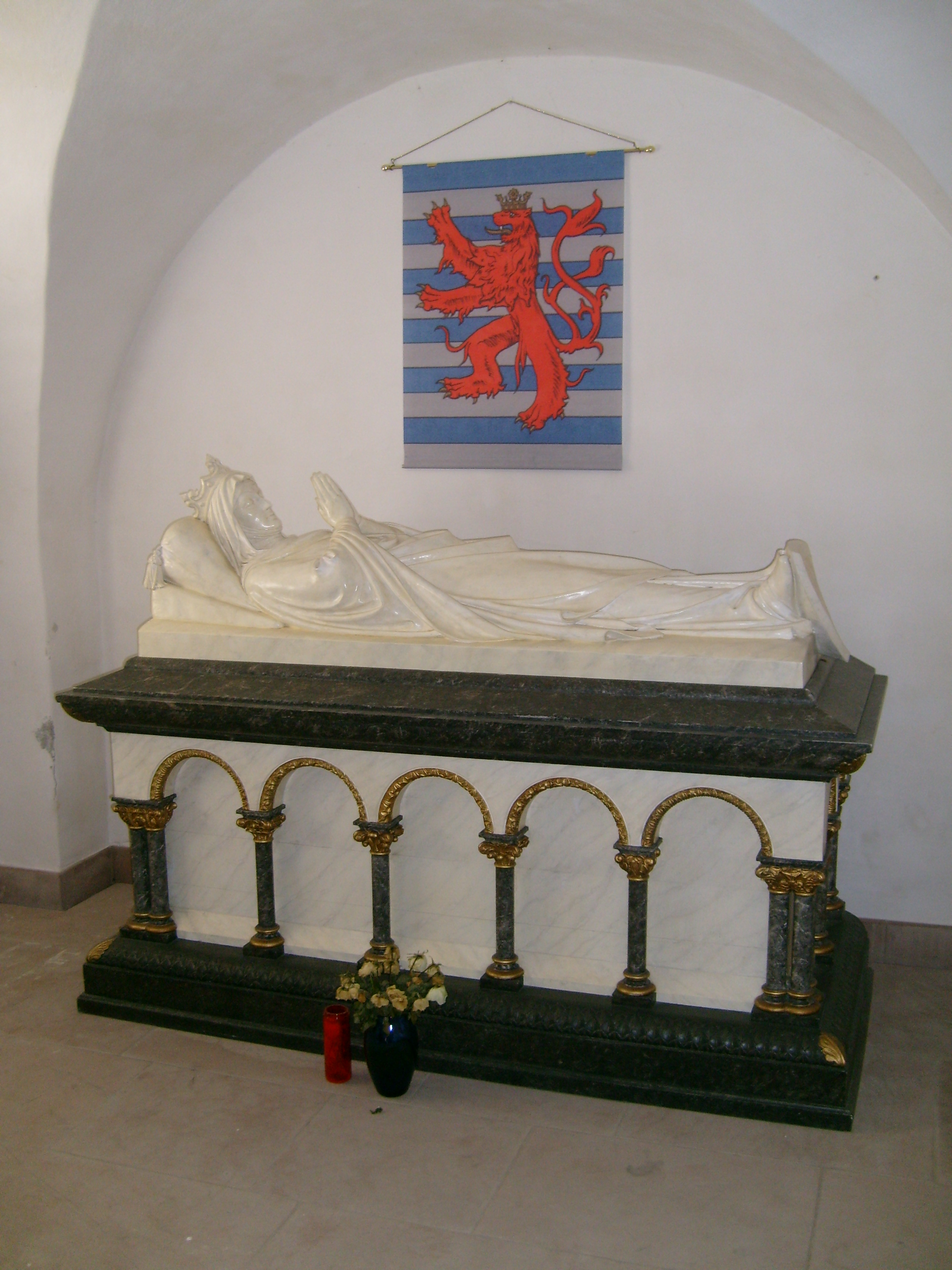 The sarcophagus of Ermesinde in the chapell of Mary in Clairefontaine, Belgium, close to the Luxembourg border.